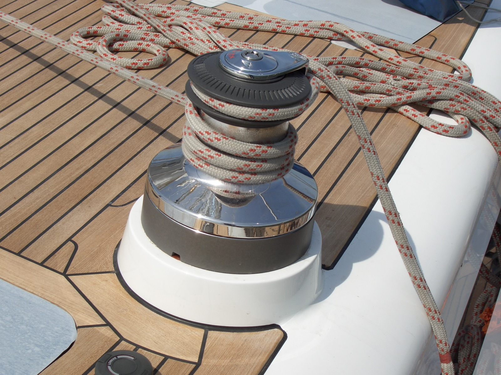 Winch